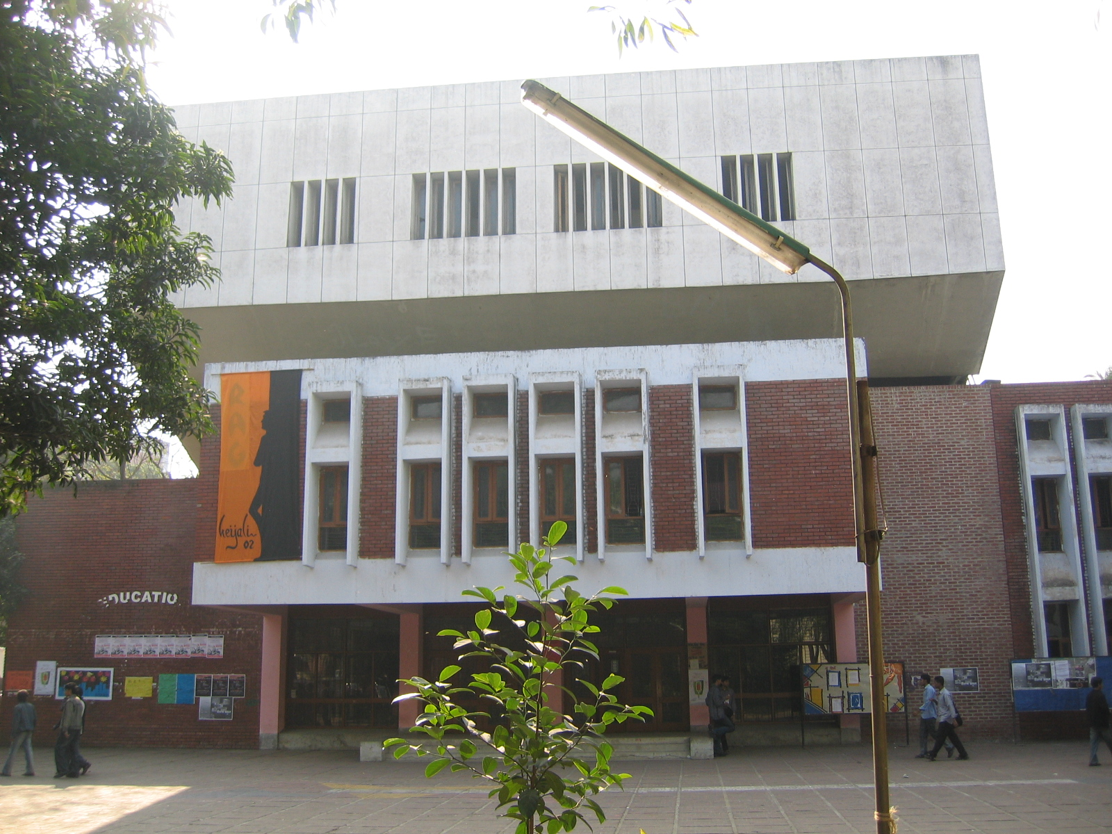 Cafeteria of the Bangladesh University of Engineering and Technology (BUET)